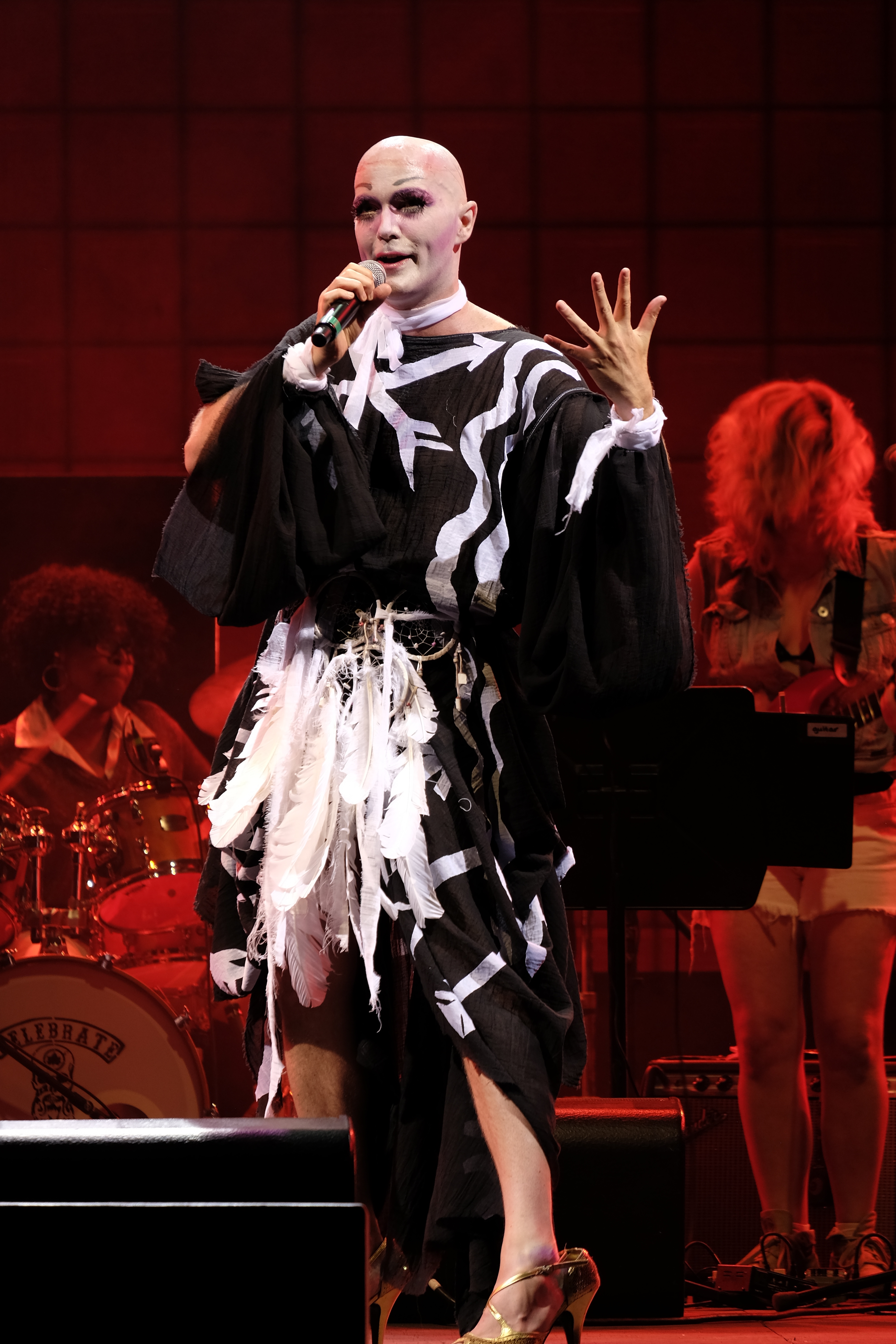 Taylor Mac performing the 20th Century Abridged at the Prospect Park Bandshell in Brooklyn, NY at BRIC's Celebrate Brooklyn. Dress by Machine Dazzle.